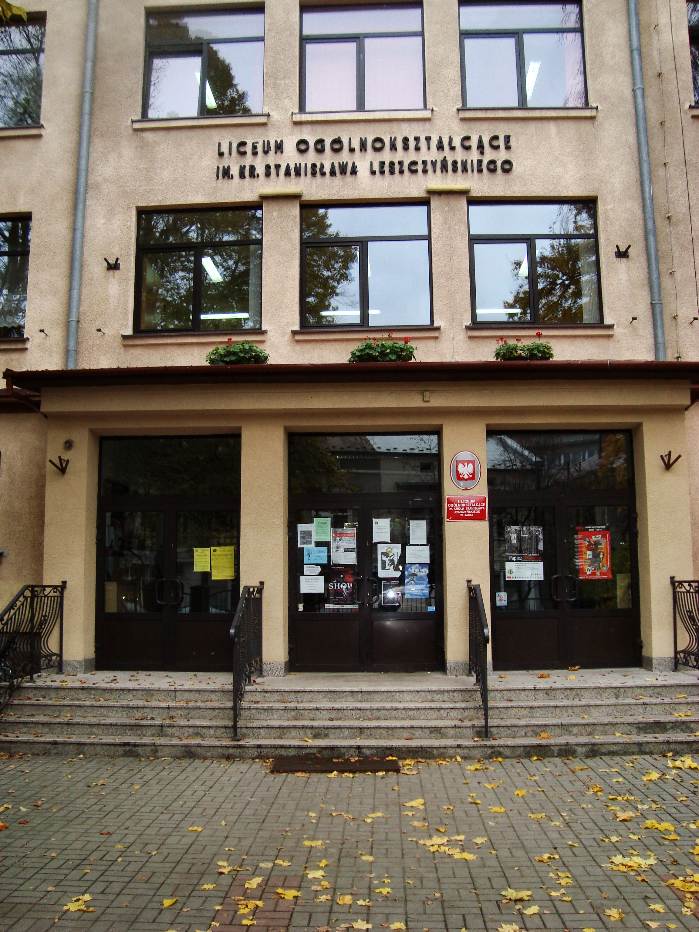 The First Secondary School in Jaslo by name Polish King Stanislaw Leszczynski, main entrance